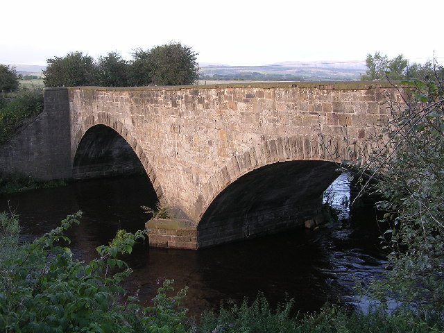 Balmuildy Bridge. Balmuildy Bridge across the River Kelvin